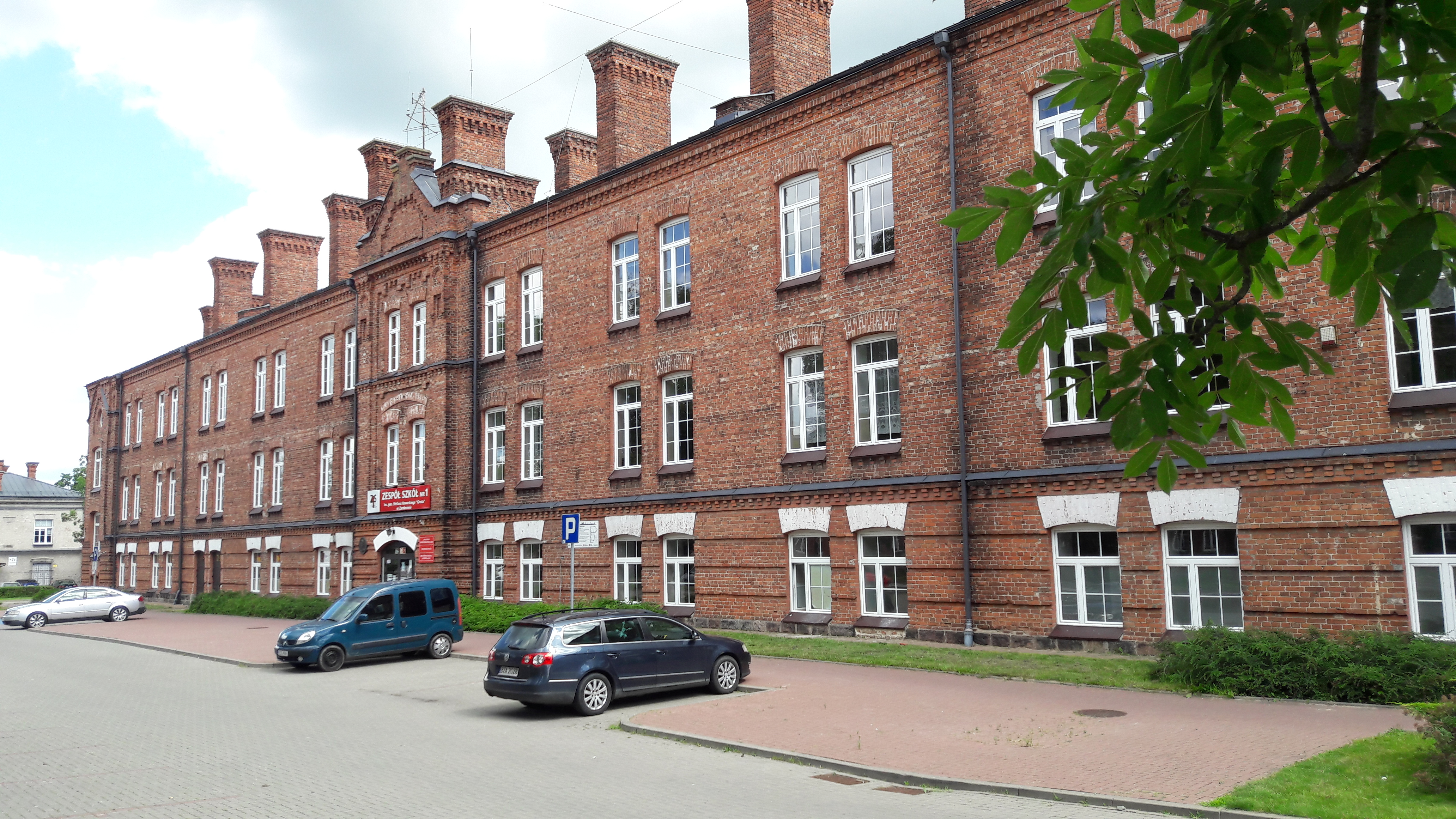 Zespół koszar carskich